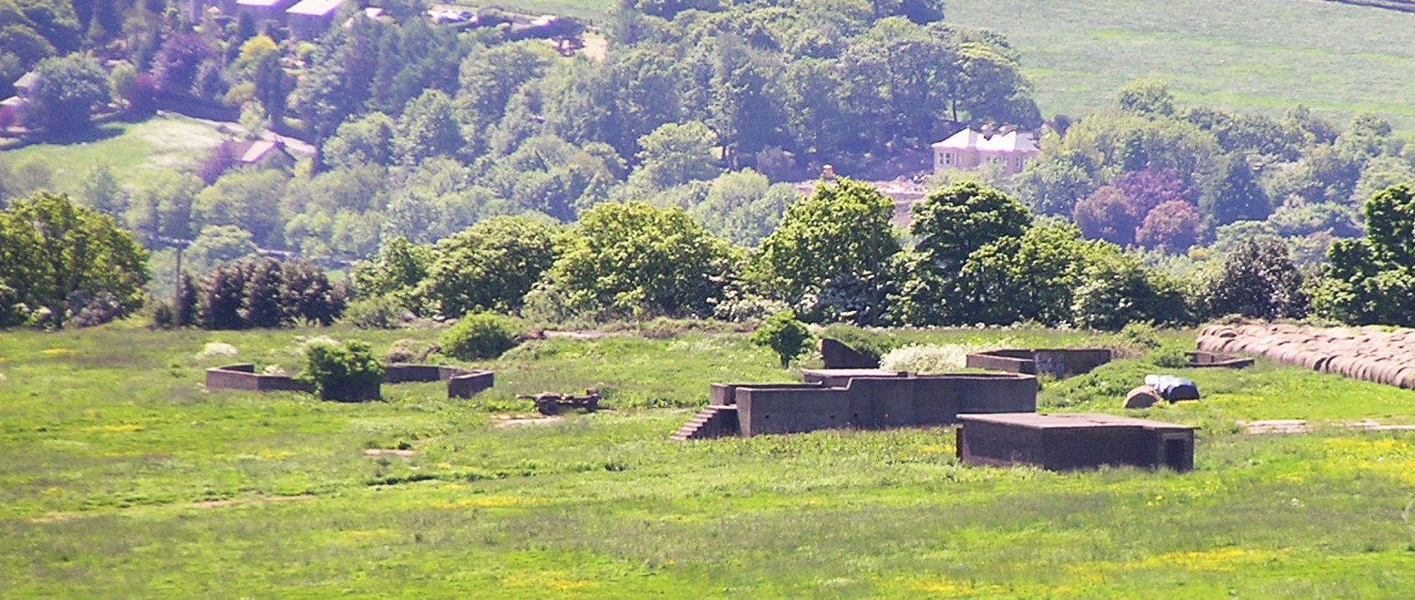 Remains of an Anti-Aircraft Battery at Castle Hill, Huddersfield, in West Yorkshire, England